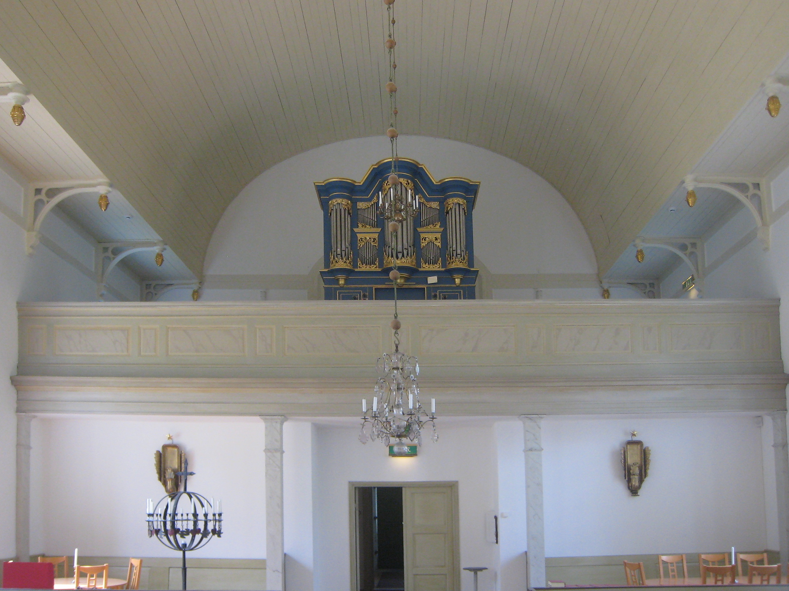 Utö kyrka.